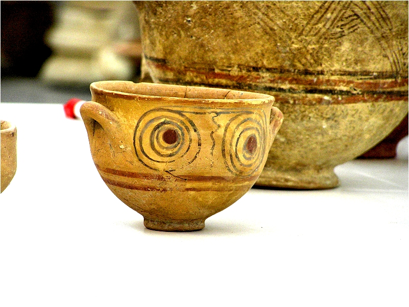 Philistine Bichrome pottery vessel